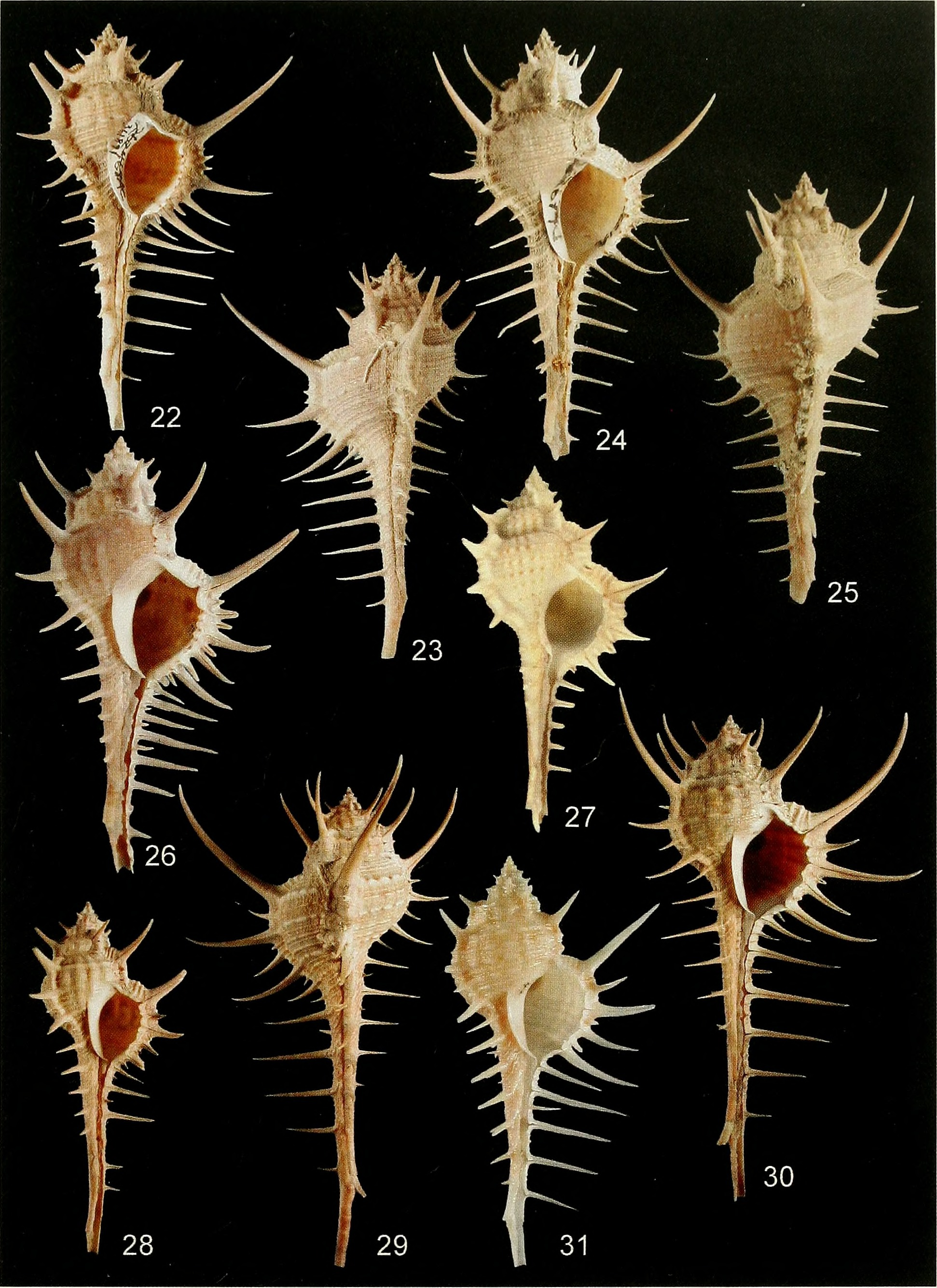 Caption:Figures 22-31. (22-26) Murex indicus new species; (22, 23) India, Gujarat, 63 miles W of Mangrol, 21°11'N, 69°16'E, 70-71 m, 79.3 mm, holotype MCZ 361891; (24, 25) India, 48 miles SSW of Dwarka, Gujarat, 22°3'N, 68°19'E, 79-88 m, 81.5 mm, paratype MCZ 361892; (26) off India, 83.8 mm, coll. RH. (27-30) Murex carbonnieri (Jousseaume, 1881); (27) Aden, Red Sea, 65.2 mm, lectotype MNHN (photo MNHN); (28) India, Puri, Orissa, 74.6 mm, MCZ 277715; (29, 30) Singapore, 102.3 mm, coll. RH. (31) Murex forskoehlii Roding, 1798. Gulf of Suez, 79.8 mm, coll. RH. Title: Breviora Identifier: breviora521harv Year: 1952 (1950s) Authors: Harvard University. Museum of Comparative Zoology Subjects: Zoology; Paleontology Publisher: Cambridge, Mass. : Museum of Comparative Zoology, Harvard University Text Appearing Before Image: 20i: TWO NEW SPECIES OF MUREX S.S. Text Appearing After Image: Figures 22-31. (22-26) Murex indicus new species; (22, 23) India, Gujarat, 63 miles W of Mangrol, 21°11'N, 69°16'E, 70-71 m, 79.3 mm, holotype MCZ 361891; (24, 25) India, 48 miles SSW of Dwarka, Gujarat, 22°3'N, 68°19'E, 79-88 m, 81.5 mm, paratype MCZ 361892; (26) off India, 83.8 mm, coll. RH. (27-30) Murex carbonnieri (Jousseaume, 1881); (27) Aden, Red Sea, 65.2 mm, lectotype MNHN (photo MNHN); (28) India, Puri, Orissa, 74.6 mm, MCZ 277715; (29, 30) Singapore, 102.3 mm, coll. RH. (31) Murex forskoehlii Roding, 1798. Gulf of Suez, 79.8 mm, coll. RH.